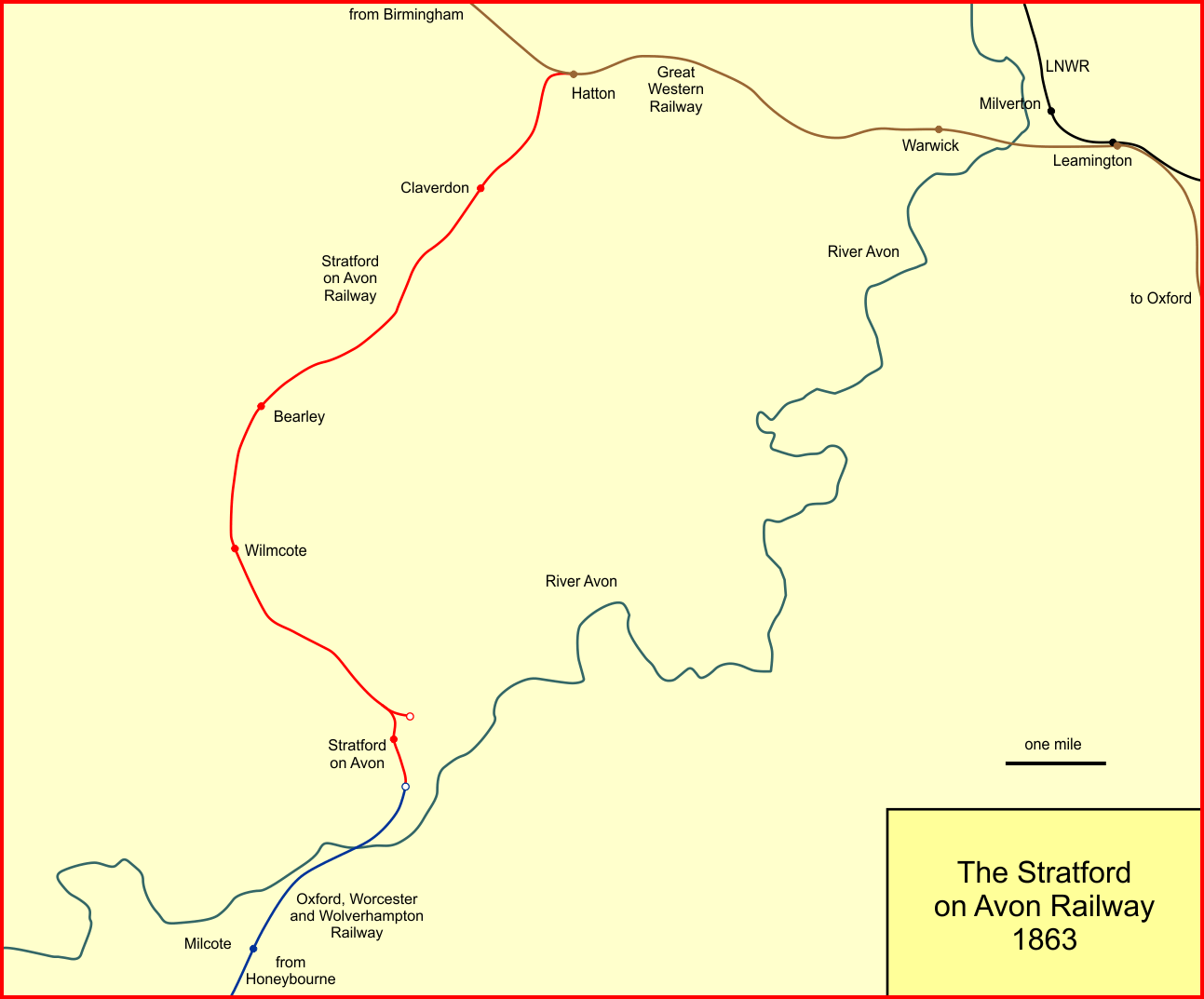 System map of the Stratford on Avon Railway, England in 1863